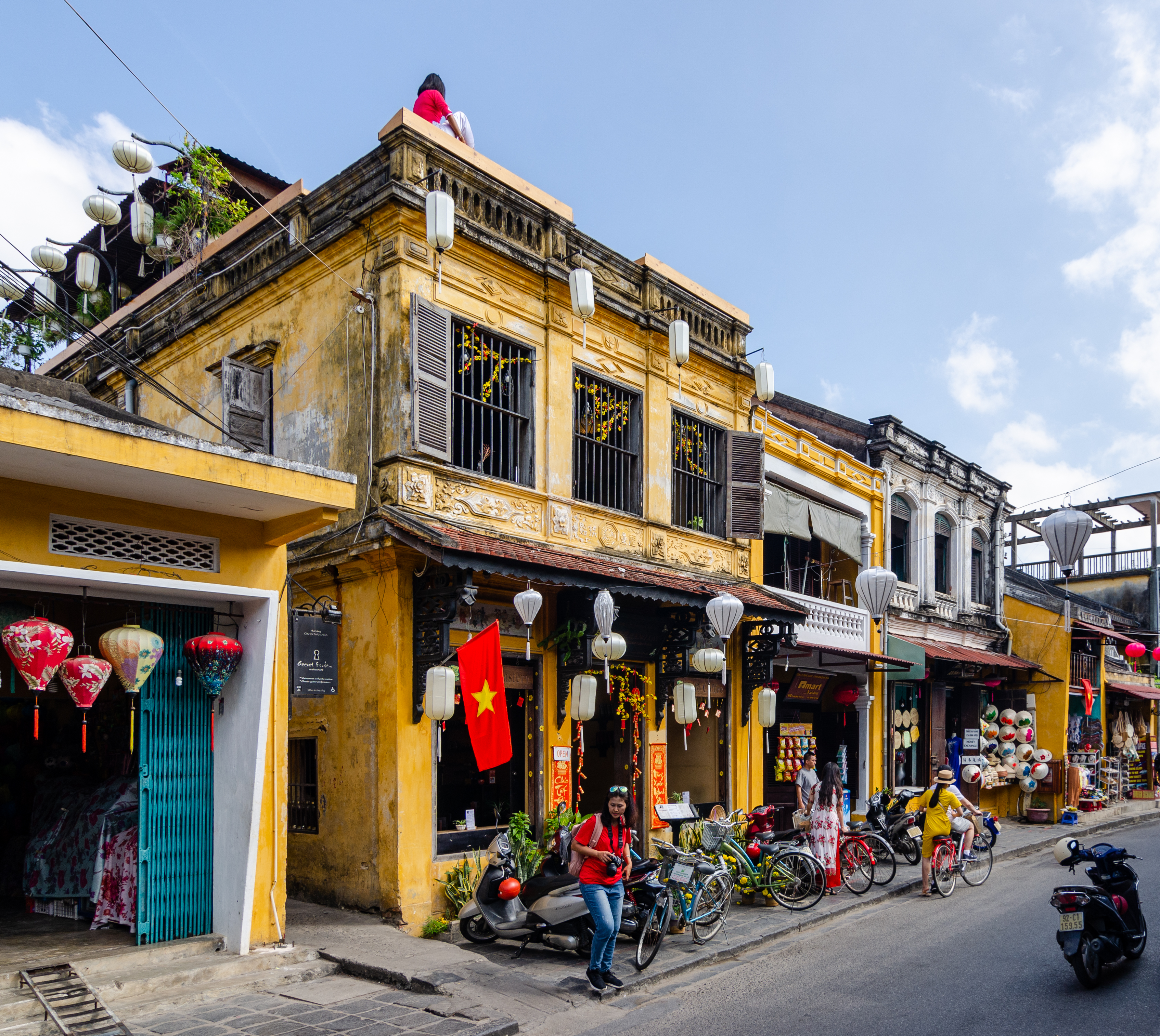 Hội An (Vietnam) – World Heritage Site Hoi An Ancient Town – houses with small shops